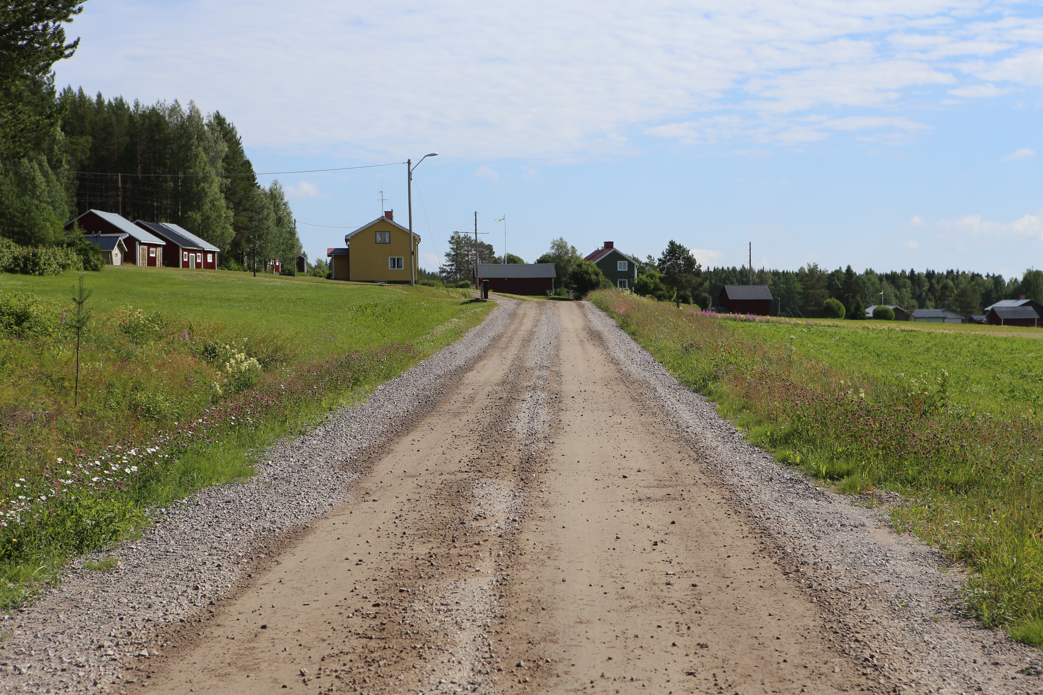 The village Storsien in Norrbotten County